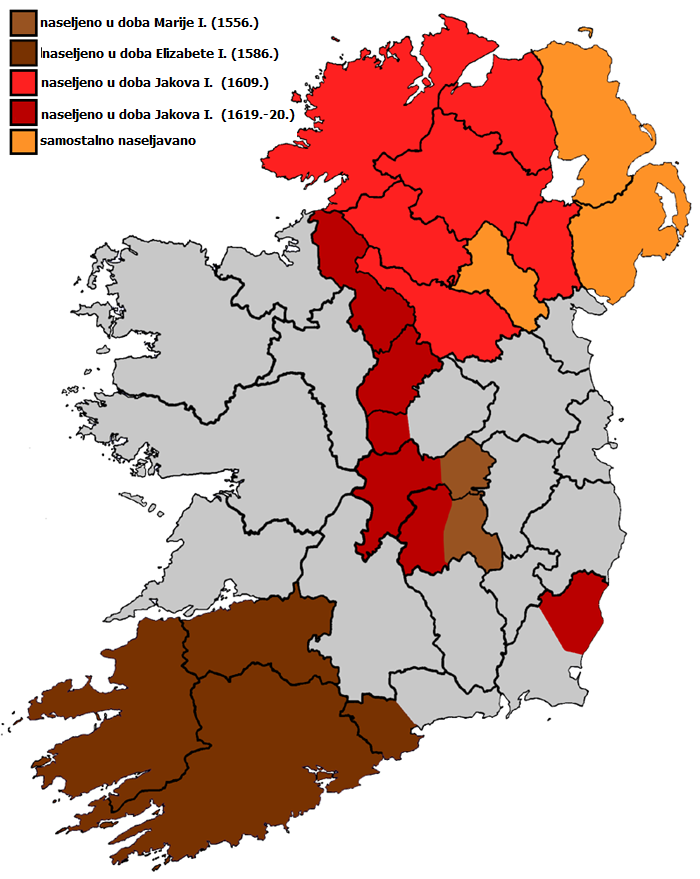 A map highlighting the areas subjected to British plantations in Ireland. Although the plantations in Munster did not cover the entire shaded area, it has been simplified for the purposes of this map. Modern county boundaries are also shown.